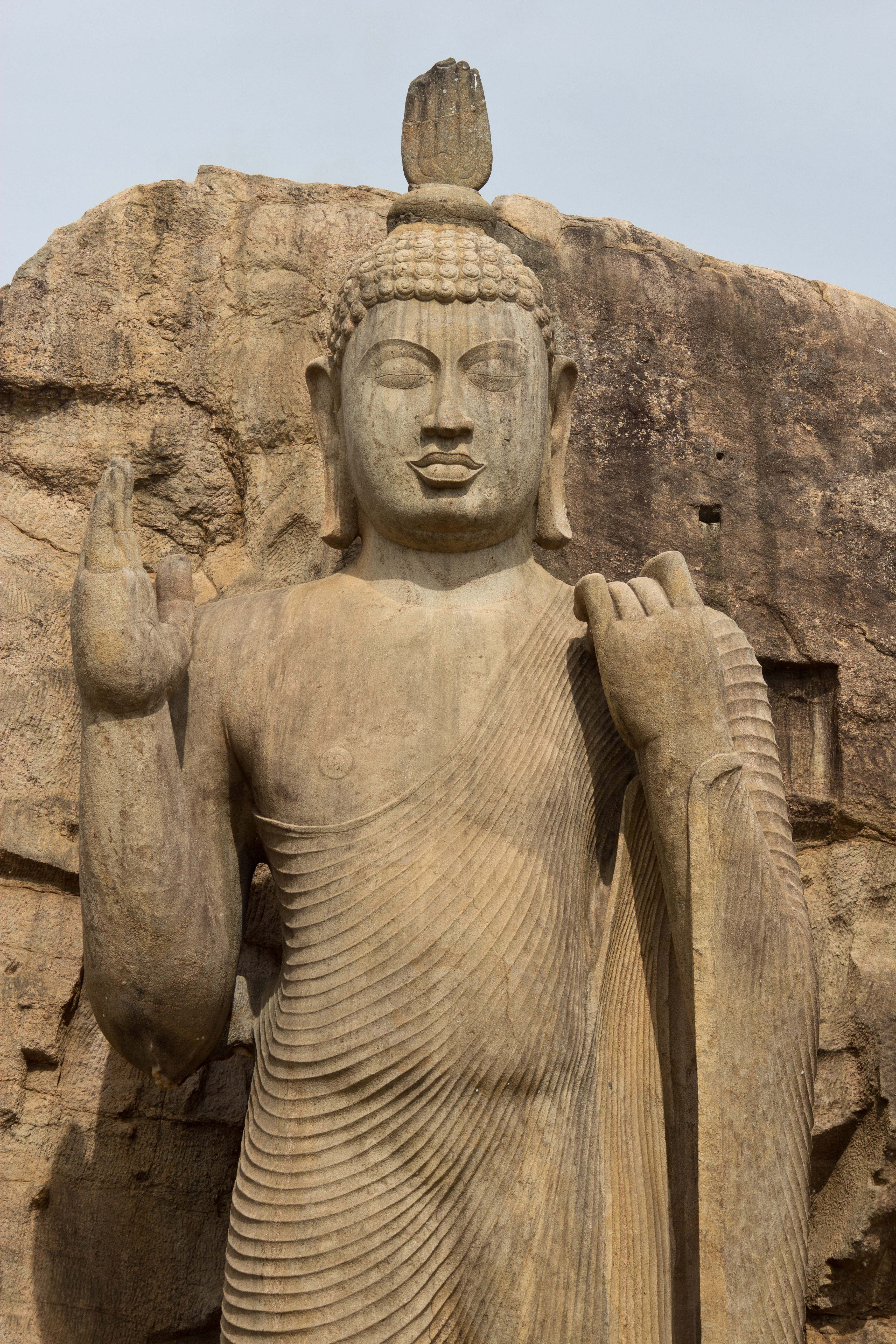 Avukana Buddha statue, Sri Lanka.සිංහල: අවුකන බුදු පිළිමය, ශ්‍රී ලංකාව.